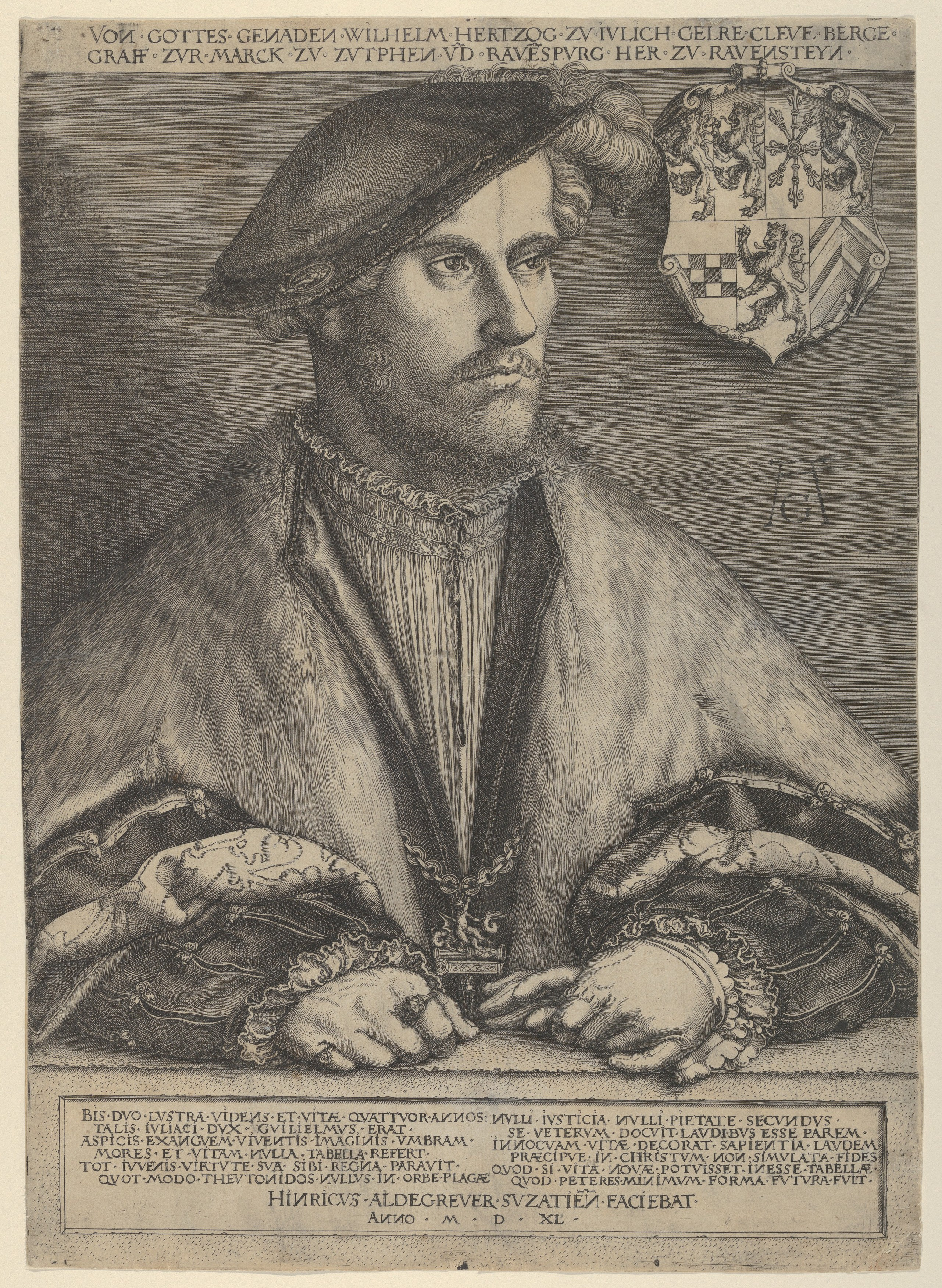 Print; Prints